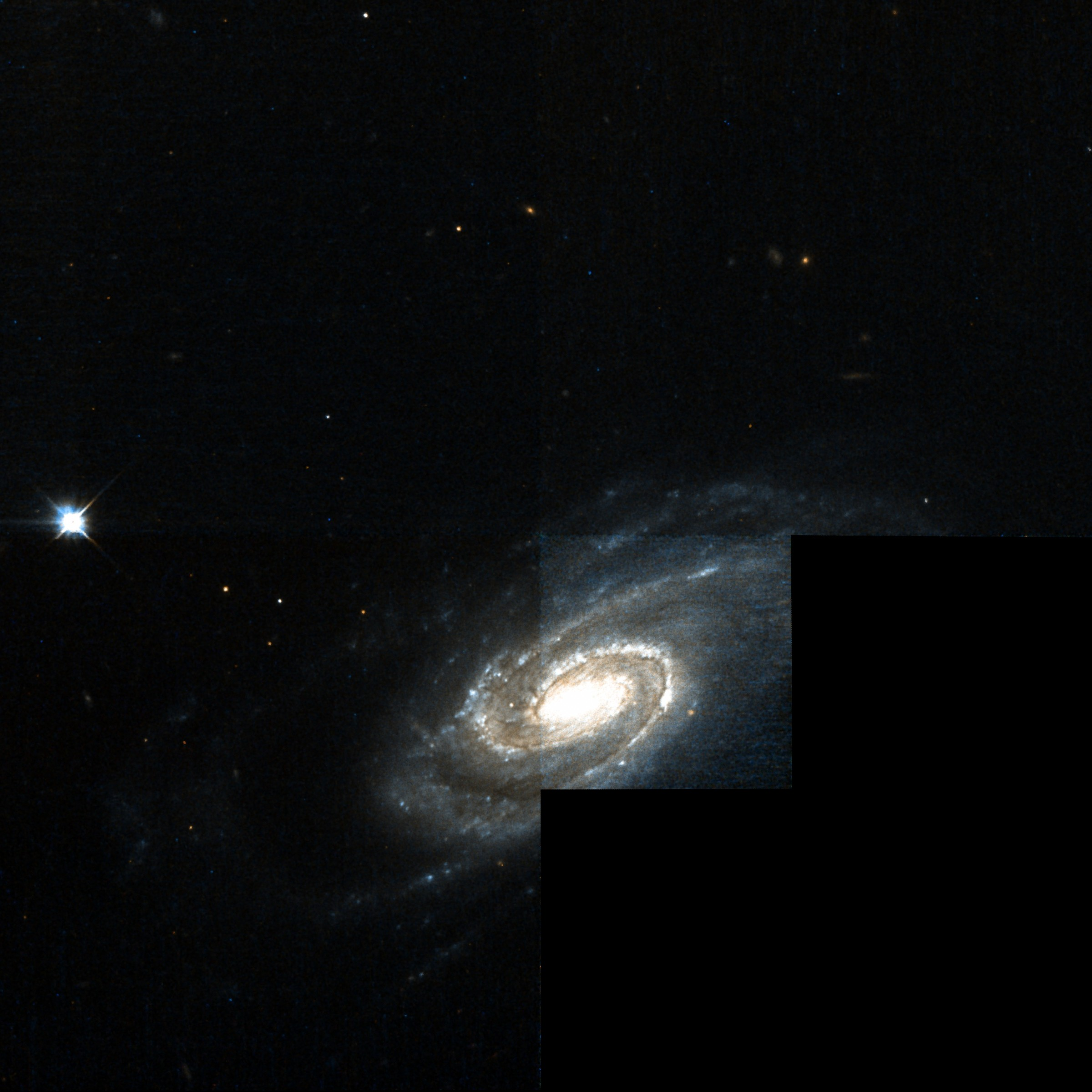 NGC 7407 galaxy by Hubble space telescope